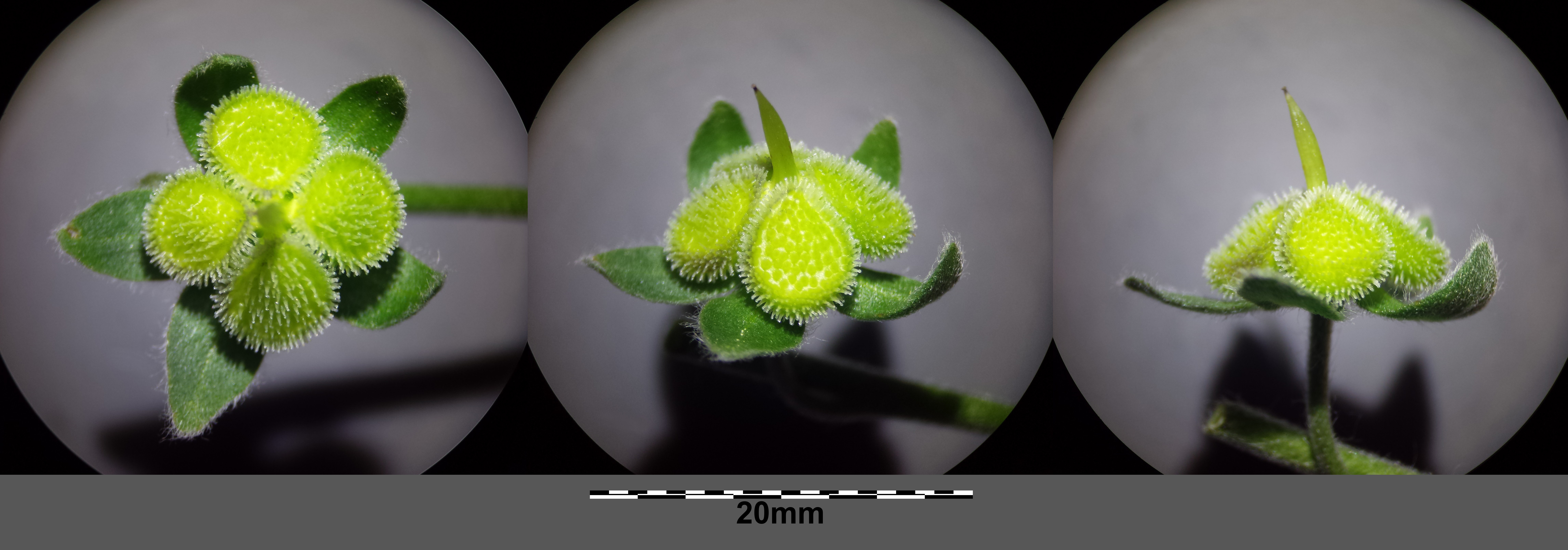 Fruit Taxonym: Cynoglossum officinale ss Fischer et al. EfÖLS 2008 ISBN 978-3-85474-187-9 Location: Burgstall to the North of Großmugl, district Korneuburg, Lower Austria - 280 m a.s.l. Habitat: slope